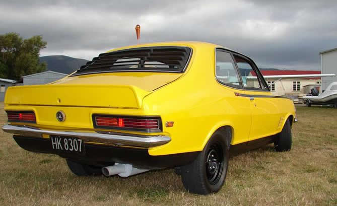 1969–1972 Holden LC Torana GTR sedan.